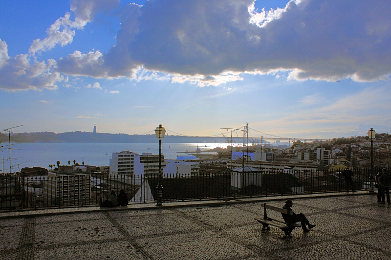 Excellent view to the Tagus River. It also offers a beautiful panorama of the harbor of Lisbon, the neighborhood of Lapa and Madragoa.